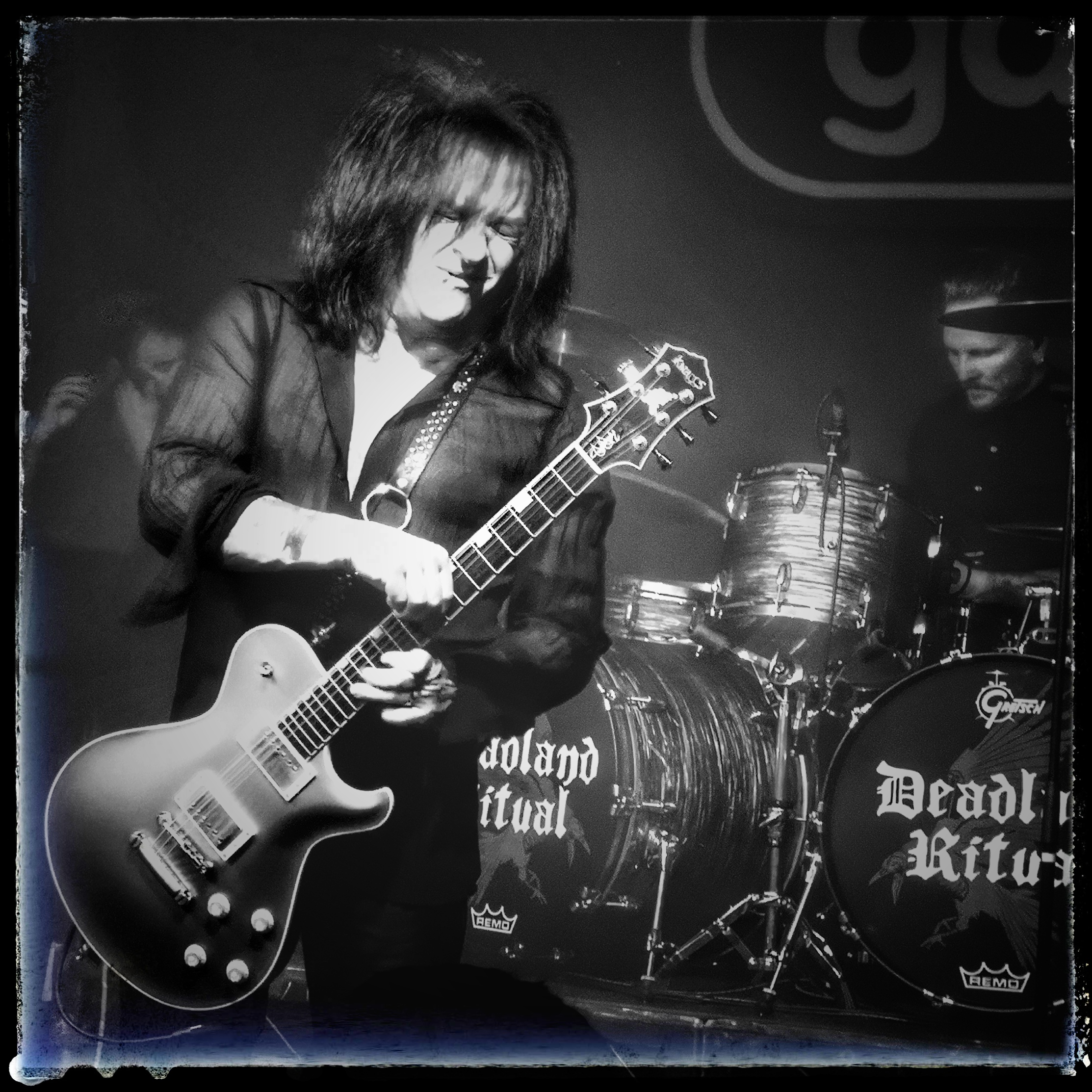 Deadland Ritual live at The Garage, Glasgow, 15.6.19. Fantastic show! Various Snapseed filters.